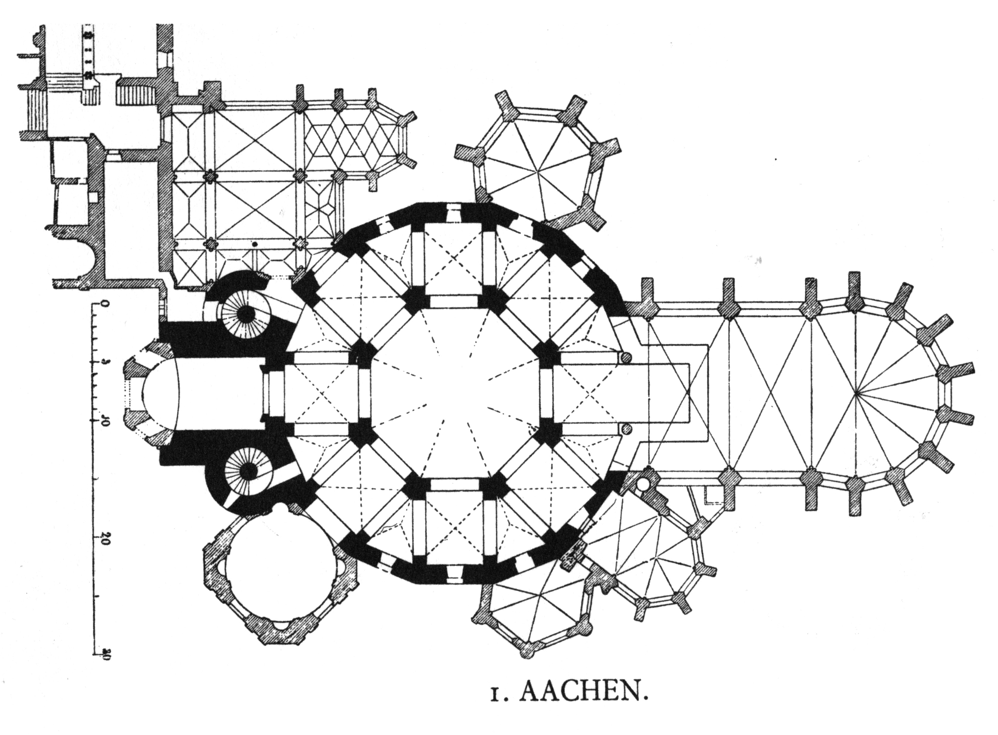 Aachener Dom.. Floor plan.